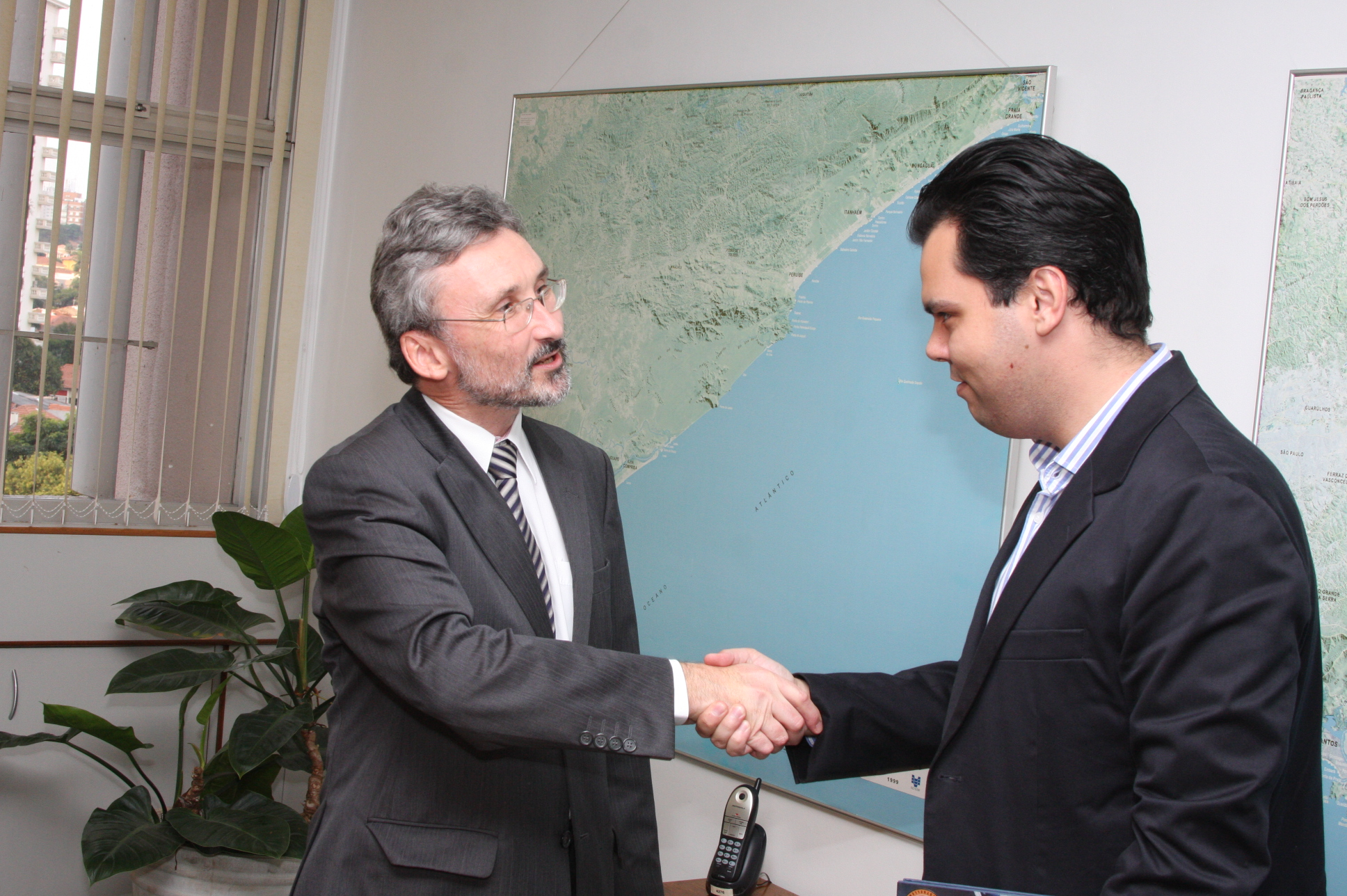 Mark Trainor (left) meets Bruno Covas.